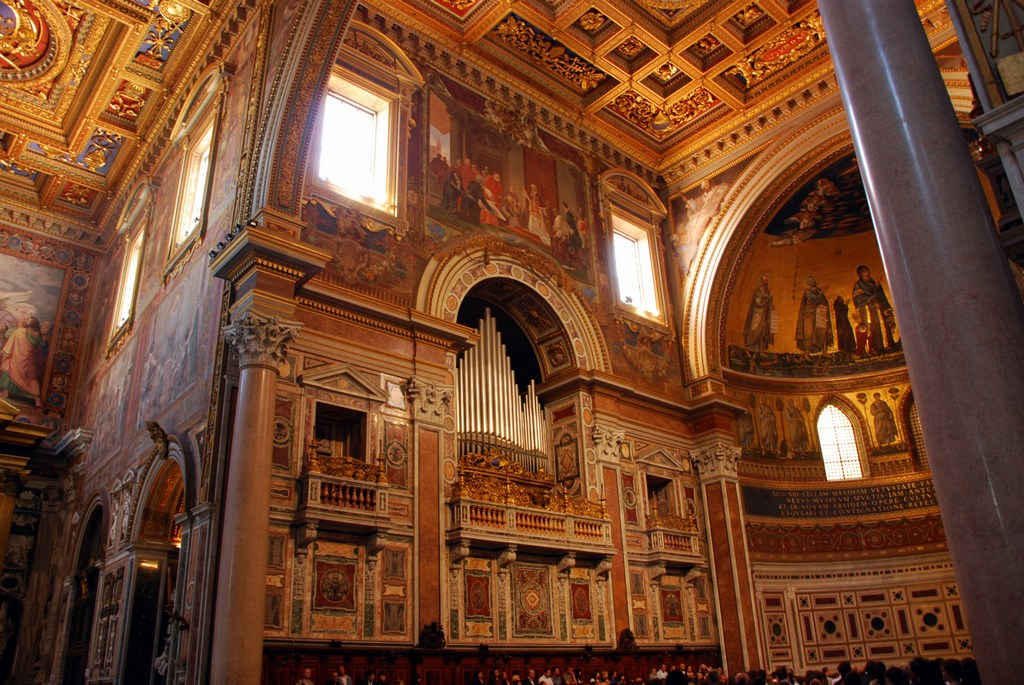 The Papal cathedra, which makes this basilica the cathedral of Rome, is located in the apse. Here the detail of the pipe organ.